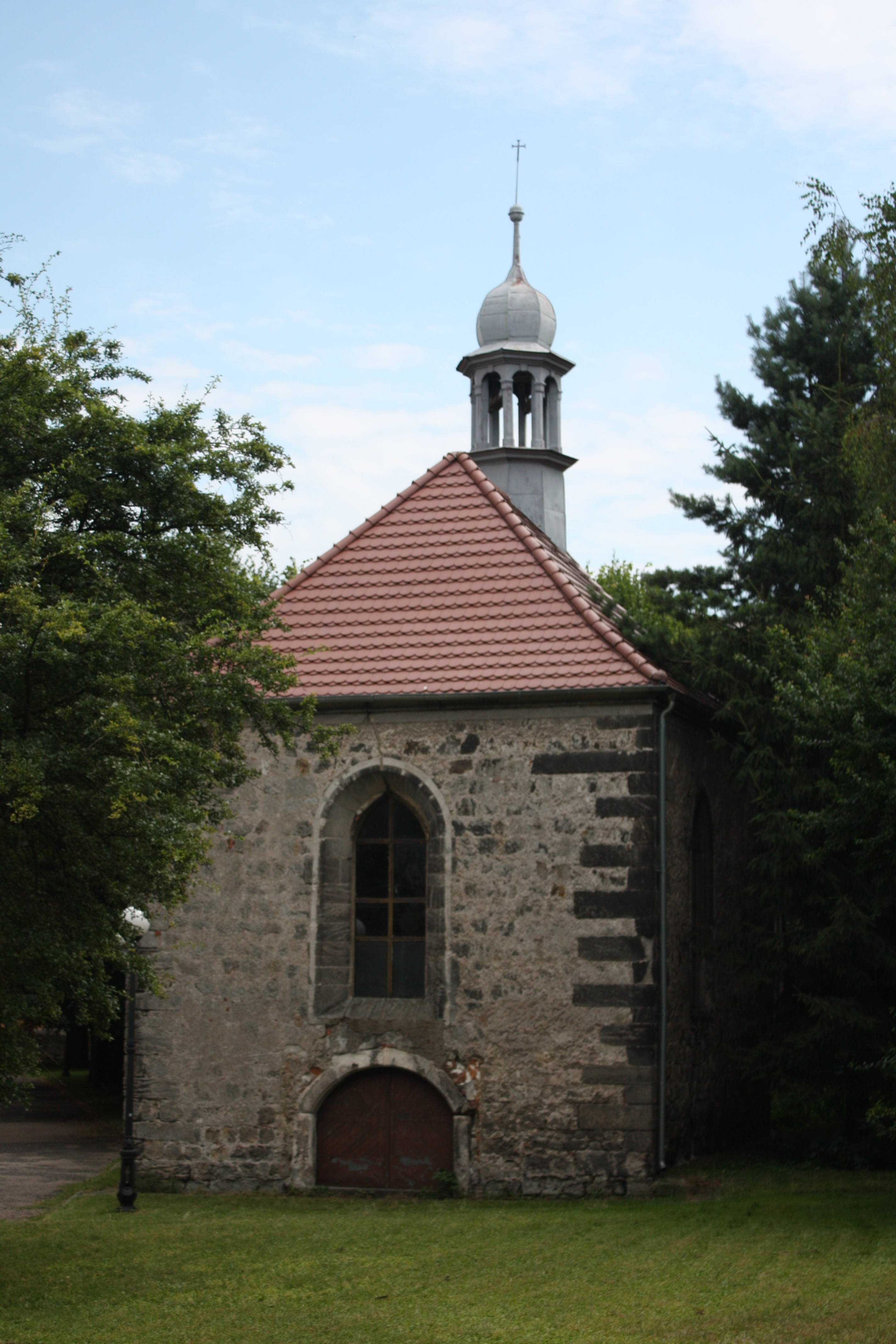 This photo of Lower Silesian Voivodeship was taken during Wikiexpedition 2013 set up by Wikimedia Polska Association. You can see all photographs in category Wikiekspedycja 2013. English | Polski | +/−